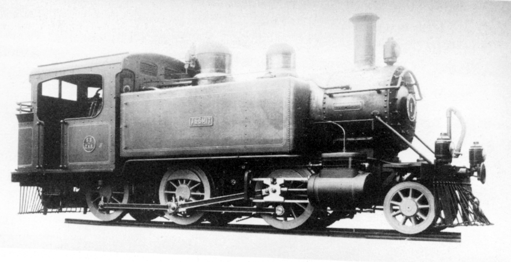 Cape Government Railways 3rd Class 2-6-0T J.S. Smit. The locomotive was intended for the SS ZAR (Staats-Spoorwegen Zuid-Afrikaansche Republiek) but was diverted upon delivery to Indwe Collieries during the South African War.